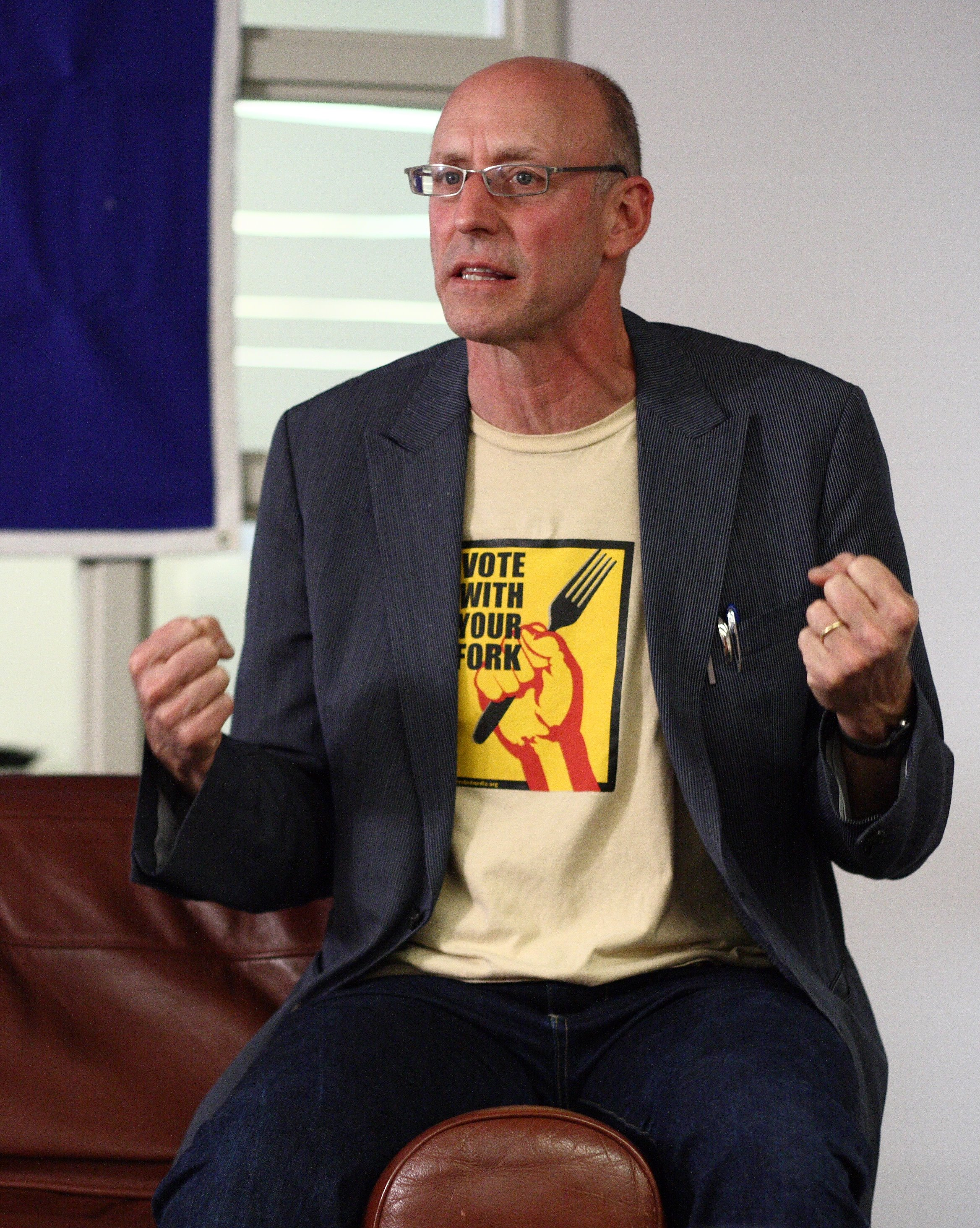 American science journalist and author Michael Pollan, speaking at a Yale University "Masters Tea"